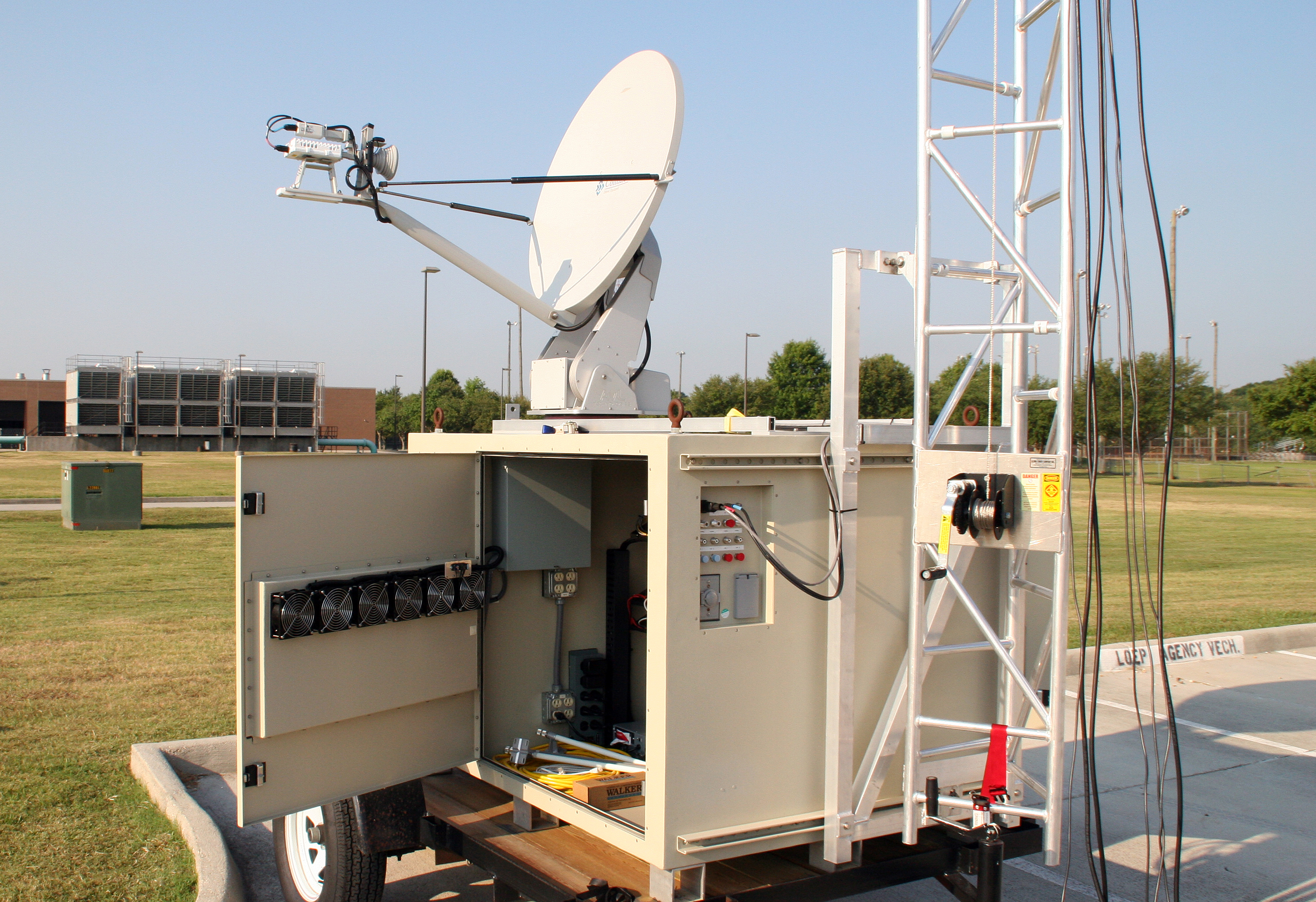 Baton Rouge, LA, May 24, 2006 - This self contained, propane or gasoline powered, fully functional, portable communications unit called Rapidcom is one of several recently purchased to provide internet, phone and satellite communications in the event of future disasters. It is being used here during a full-scale exercise to test this apparatus as well as validating recently revised emergency procedures in preparation for the 2006 hurricane season. Robert Kaufmann/FEMA